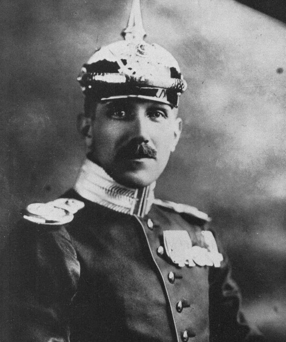 Future German Reich-Chancellor Franz von Papen as a Military Attaché in Washington D.C. in 1914.